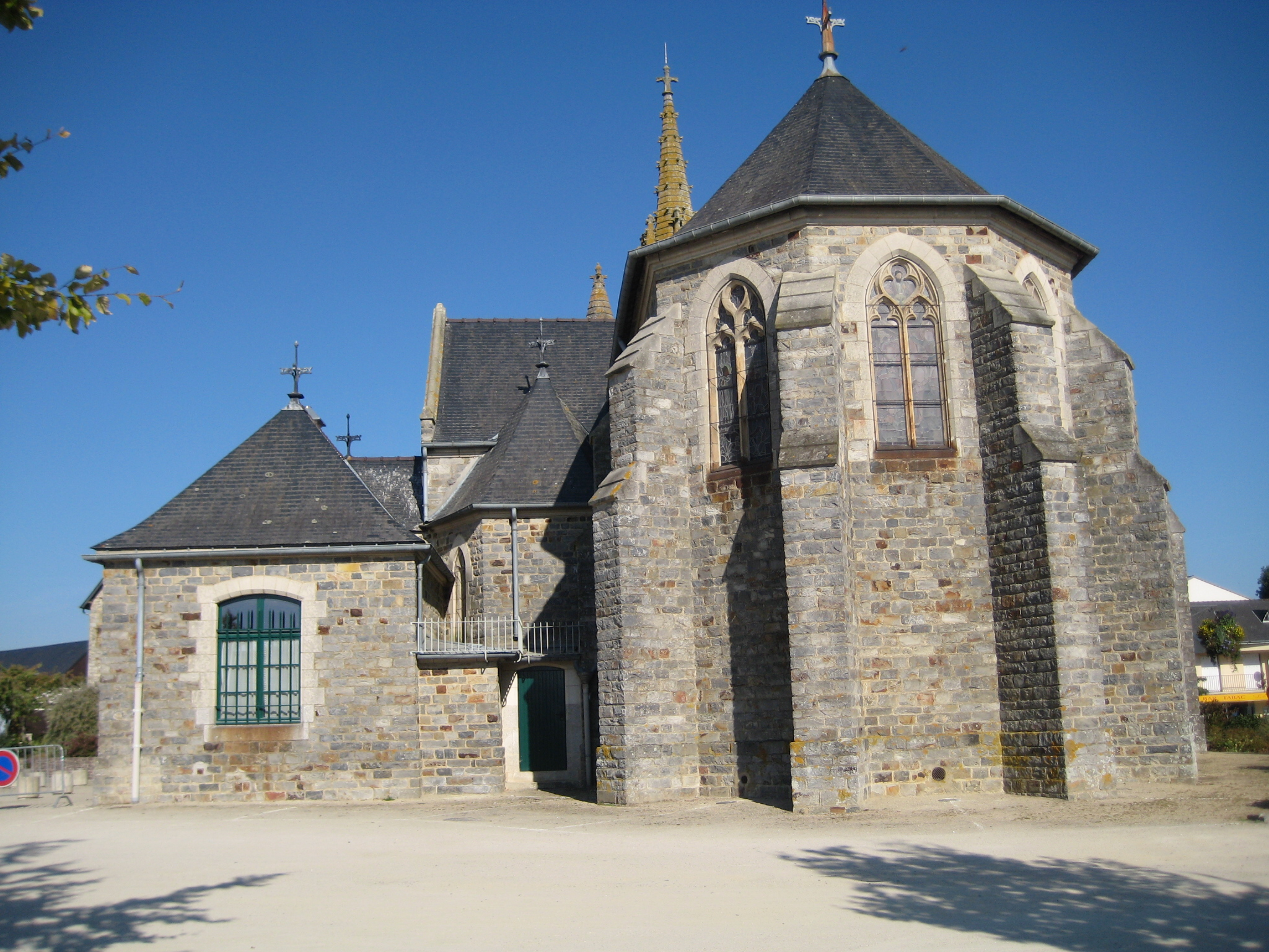 back of the church of Thorigné-Fouillard, Ille et Vilaine, France